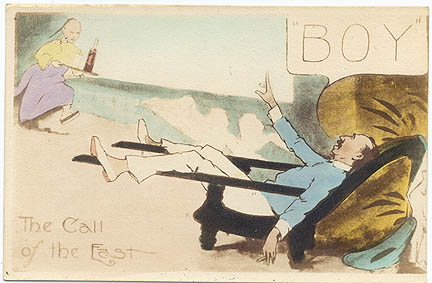 Racist postcard from the 1900s. Depicts a white man calling "BOY!" for a Chinese man to bring him a drink. The caption is "Call of the East".